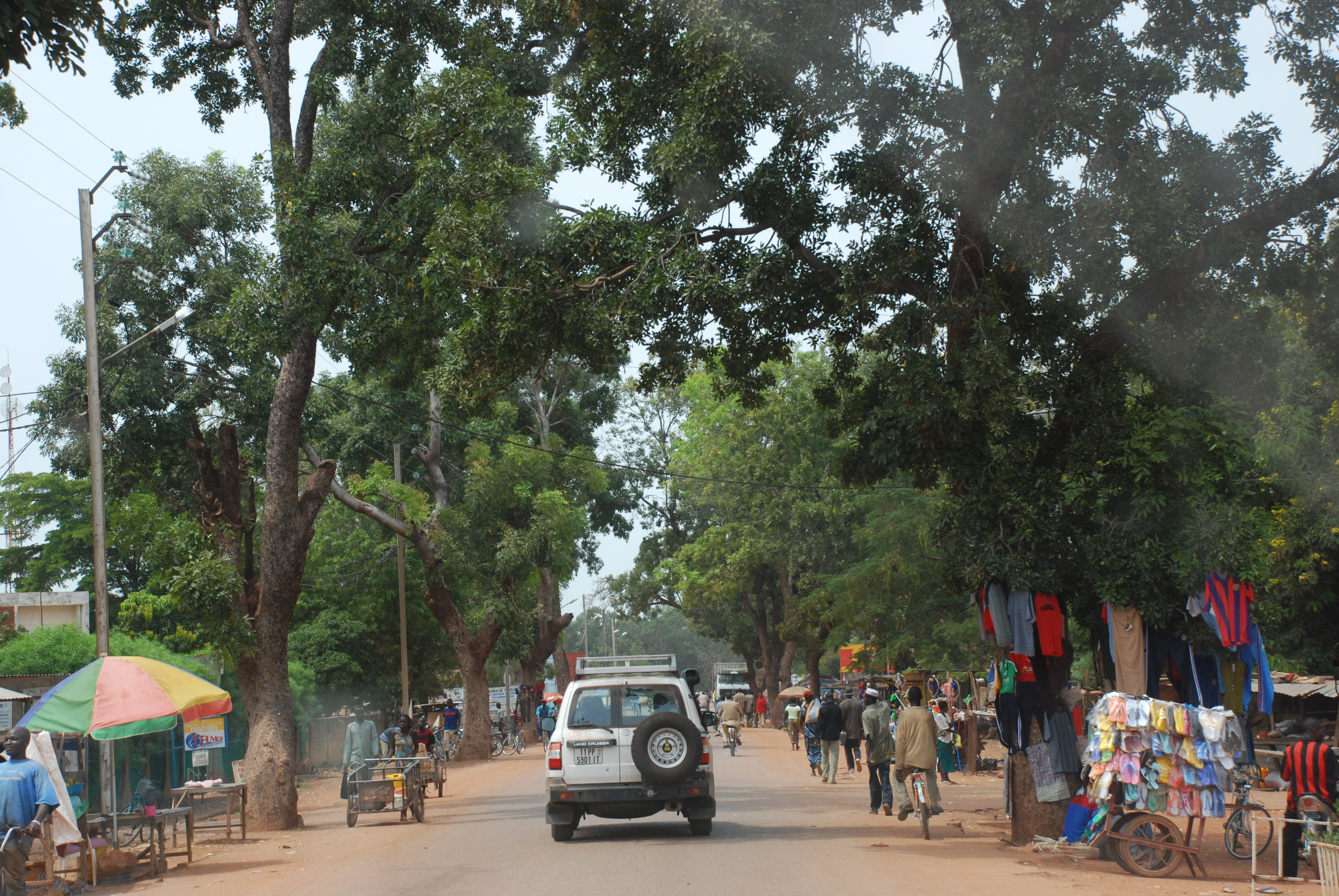 Main street of Fada N'Gourma; city in South-East Burkina Faso (West Africa)